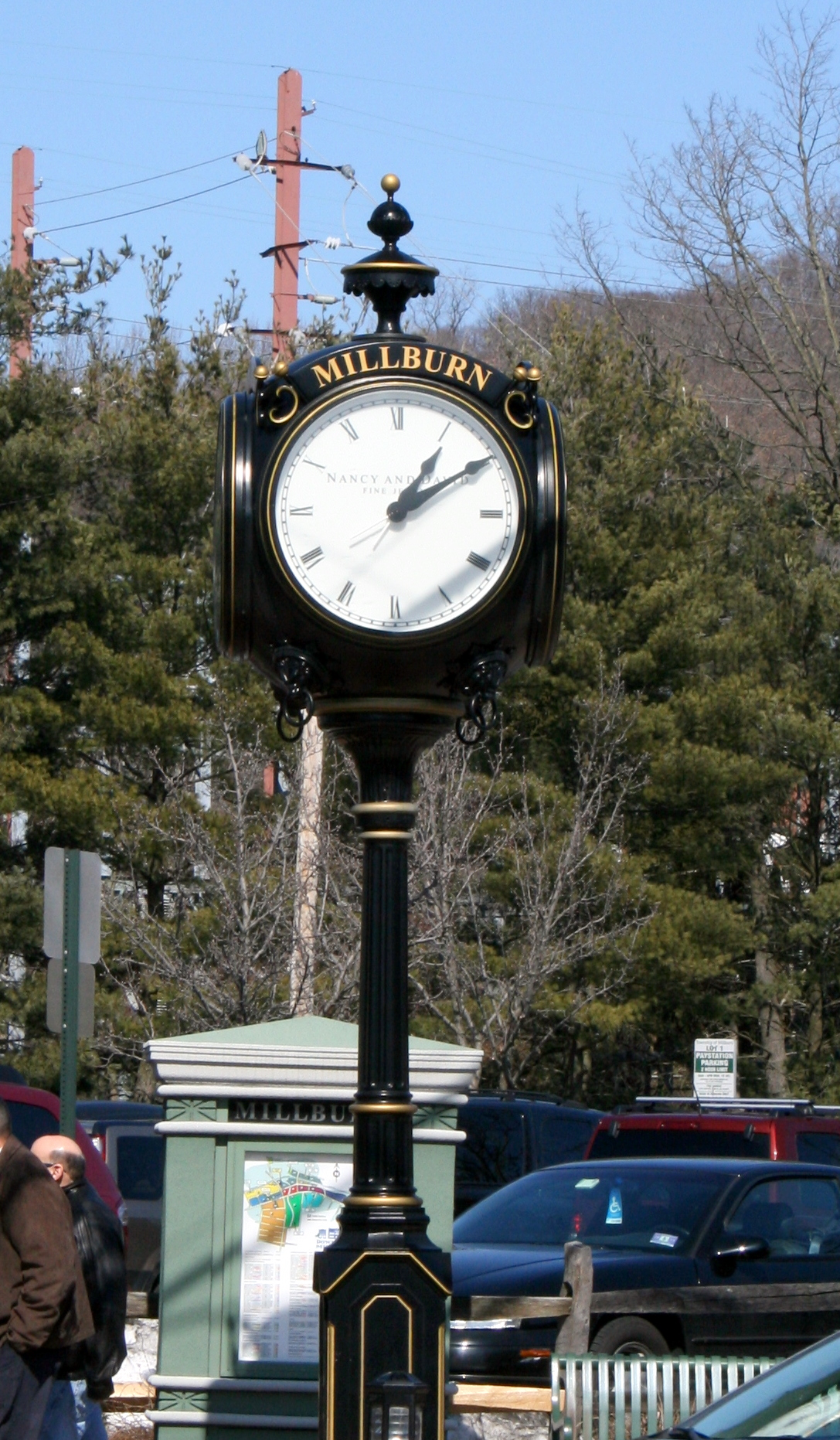 Looking north at the clock tower at Essex St and Short Hills Rd in Millburn, New Jersey